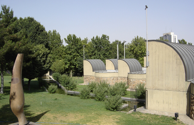 Museum of Contemporary arts, Tehran, Iran. Sony 5.1 MegaPixel camera was used.